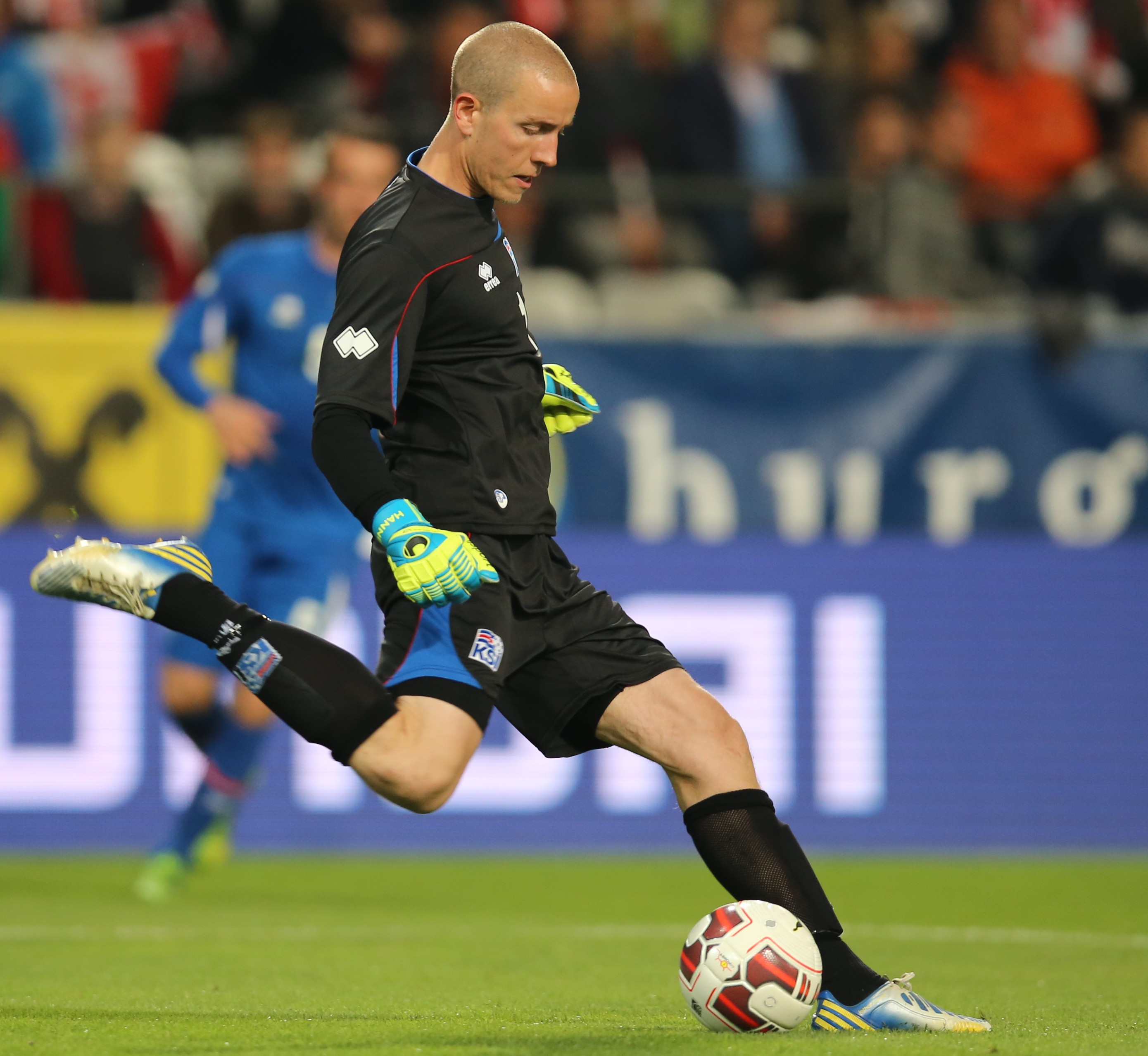 Austria - Iceland football match in Innsbruck, Austria on 2014-05-30. Austria in red, Iceland in blue.